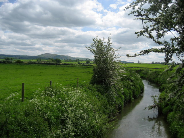 River Camlad As seen from the footbridge that carries the Offa's Dyke National Trail over the river. According to my guide book, this channel is unique, as the only major watercourse that flows into Wales from England - rather than the other way round.